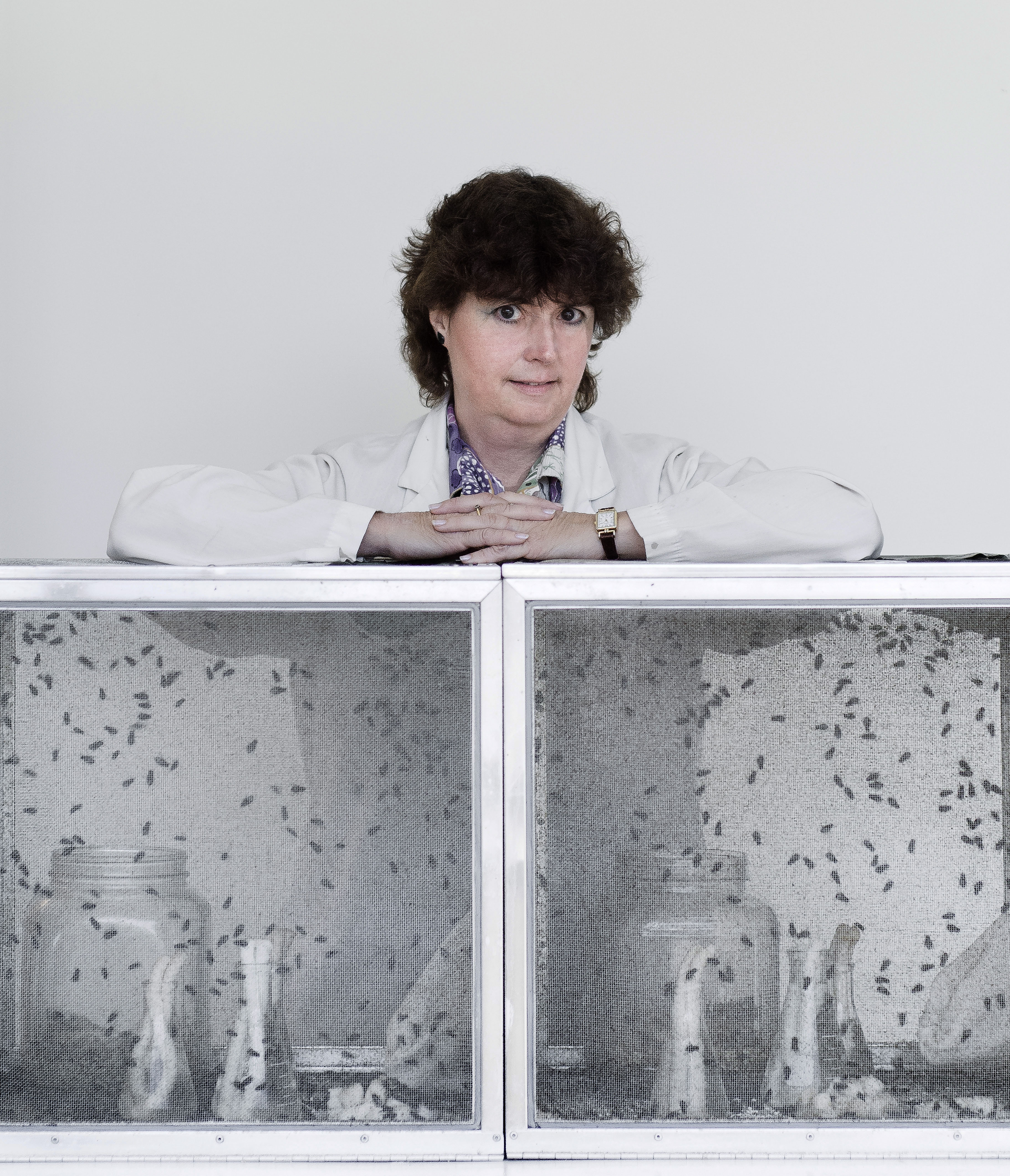 Gail Anderson in 2006